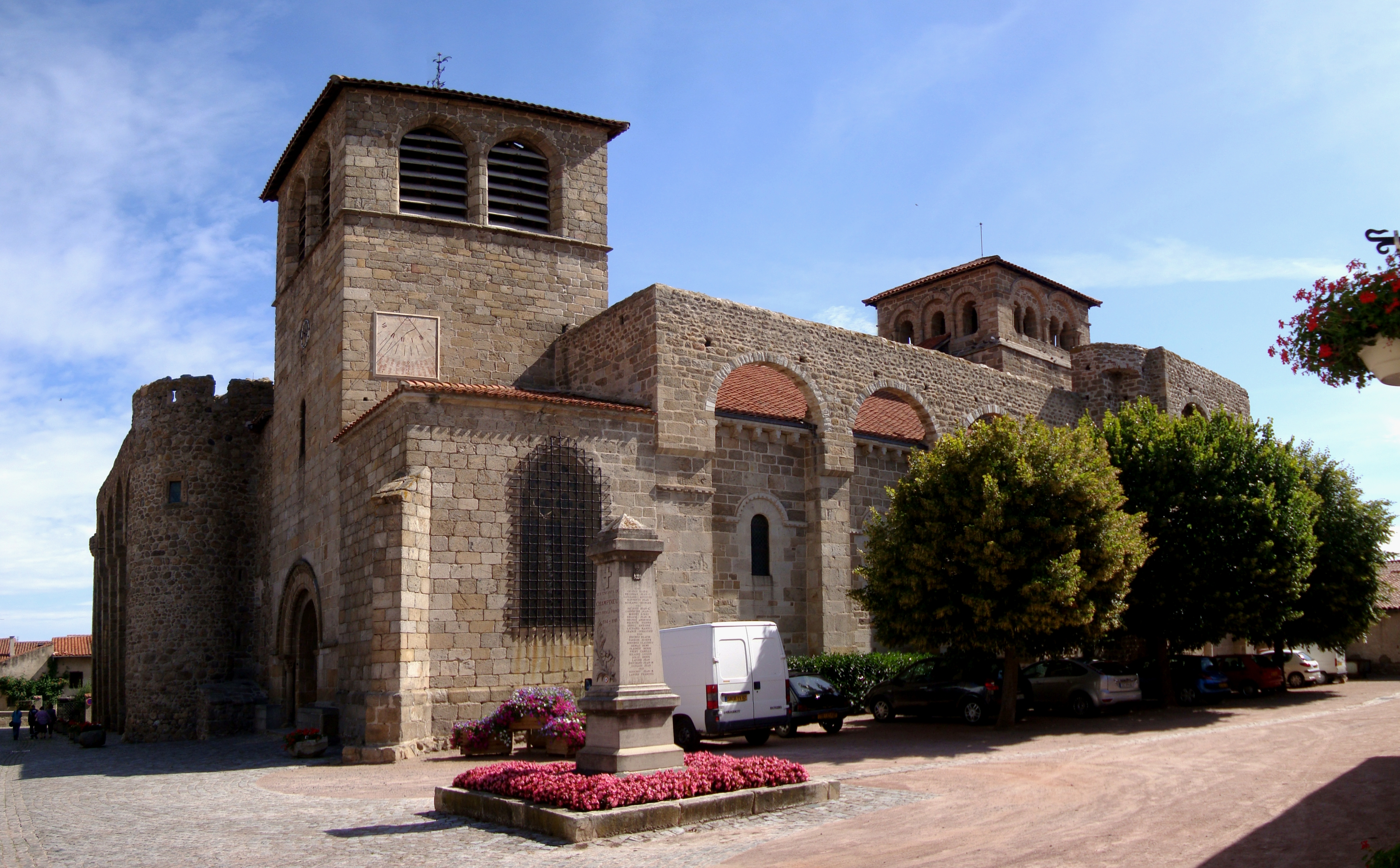 Church and Prieuré of Champdieu (Loire), France.